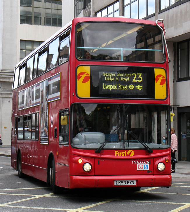 First London bus TNA33376 (reg. LK53 EYV), a 2003 Transbus Trident 2 double-decker with Transbus ALX400 bodywork, pictured heading north on Duke Street, City of Westminster, London, turning right onto Wigmore Street. It is operating London Buses route 23 en route to Liverpool Street station, and is on diversion due to major roadworks on Oxford Street between February and November 2011, affecting all eastbound bus services (westbound services being unaffected).